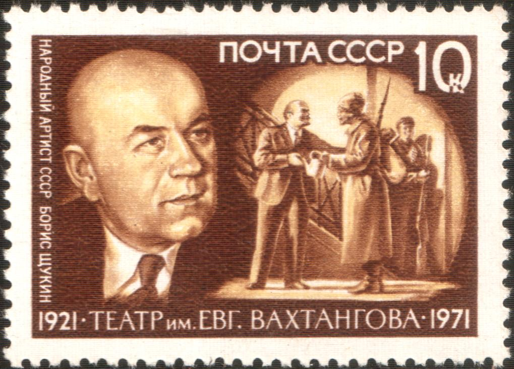 USSR stamp: Boris Shchukin (Actor) and Scene from "The Man with the Rifle" (Lenin). Series: 50th Anniversary of Vakhtangov Theatre, Moscow